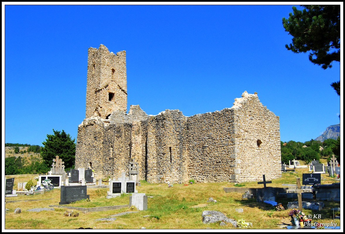 Pre-Romanic Holy Salation church at the source of river Cetina